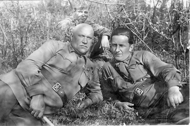 In the foreground at the left colonel A.A. Mavrin, on the right, presumably, commissioner I.E. Evdokimov of 1942.